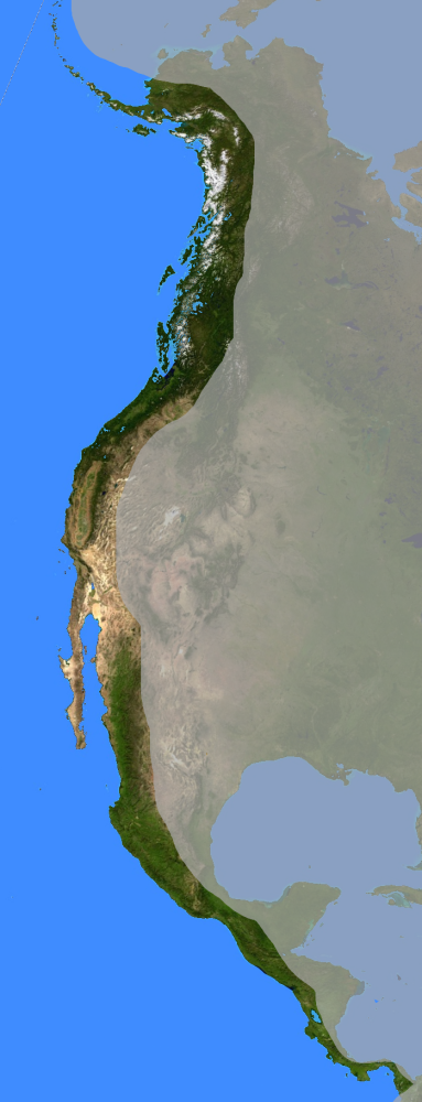 West coast of North America on the Pacific Ocean satellite orthographic projection..